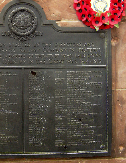 Detail of the Furness Railway Company memorial to their employees who were killed in the First World War, at Barrow-in-Furness station, showing shrapnel damage from the bombing of Barrow during the Second World War.